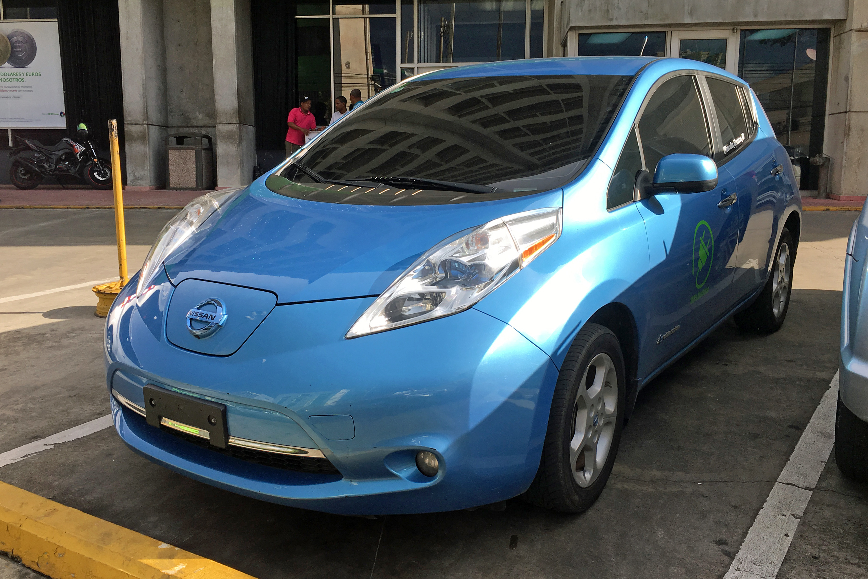 Nissan Leaf electric car in Santo Domingo, Dominican Republic